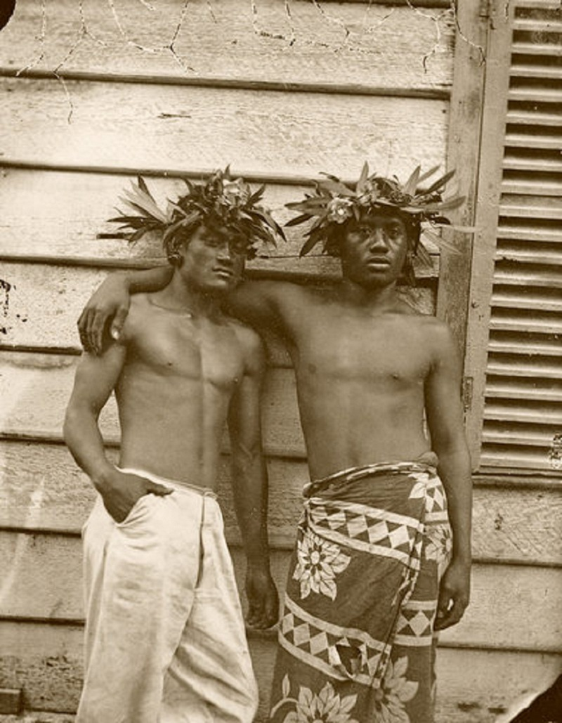 Two Tahitian men, 1870, Paul-Émile Miot. Courtesy Musée de l'Homme, Paris. Gelatin silver print